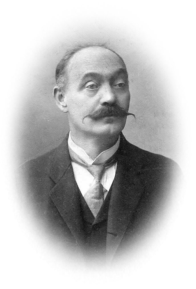 Copy of portrait photograph of dr Andrzej Kusionowicz Grodyński, President of the Silesian Court of Appeal in Katowice - external references ranging from Andrzej Kusionowicz to dr A Grodynski refer to the same person who changed his surname around the end of the nineteenth century. Link to colour image plus further information and other images